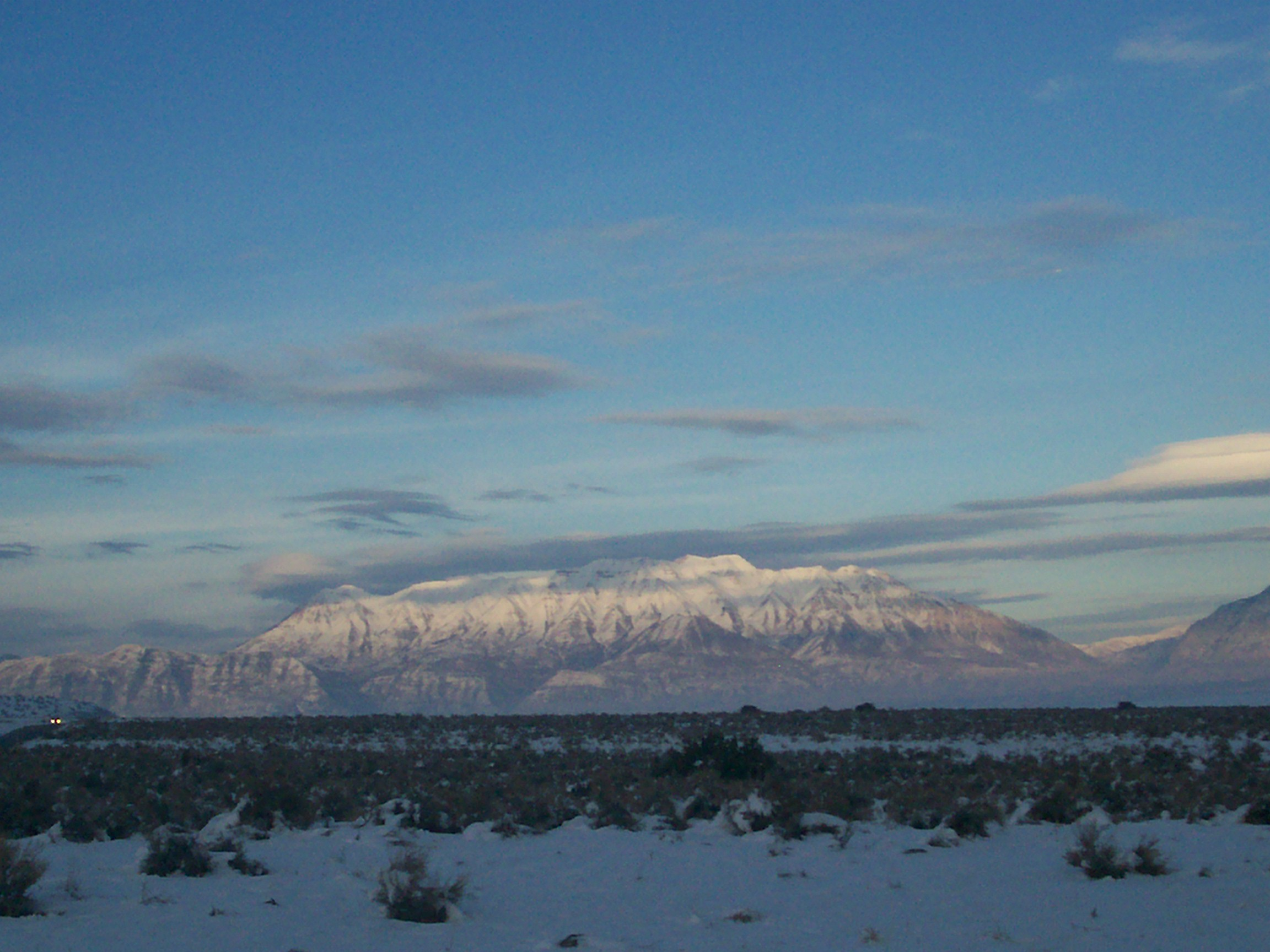 Mount Timpanogos in Utah County, Utah in winter taken by David Jolley.